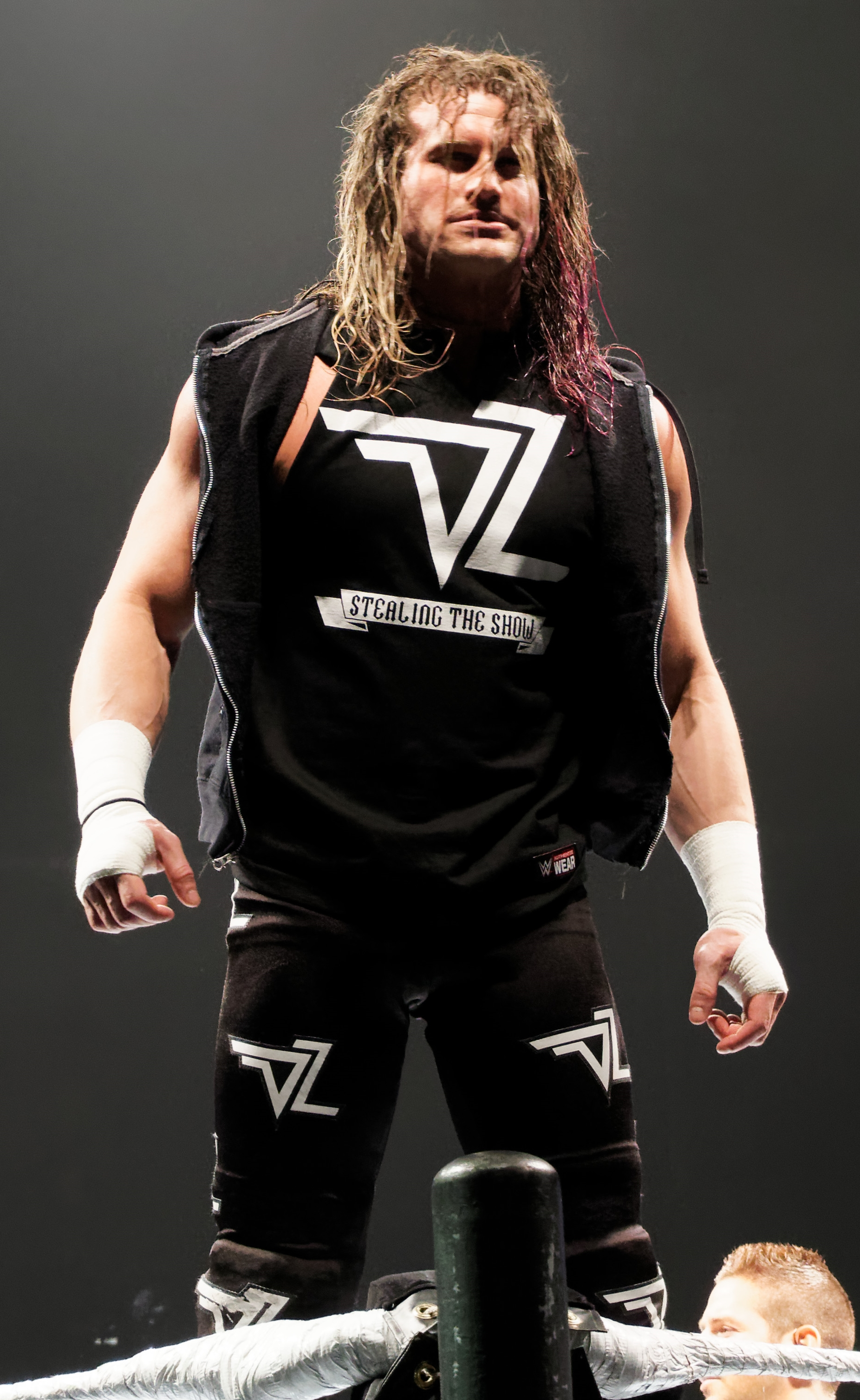 Dolph Ziggler in April 2016